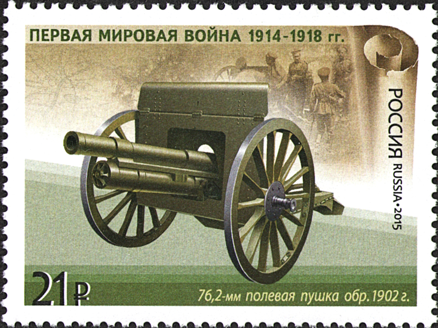 The History of World War I (the ongoing series, issue III). The Russian weapon of World War I. The 76.2 mm divisional gun model 1902. The stamp of Russia, 21.00 ₽, 10 September 2015, PTC Marka Catalogue No. 1996, Michel No. 2213. Coated paper. Offset printing. Perforation: comb 12. Size of the stamp: 50×37 mm. Print run: 396,000.